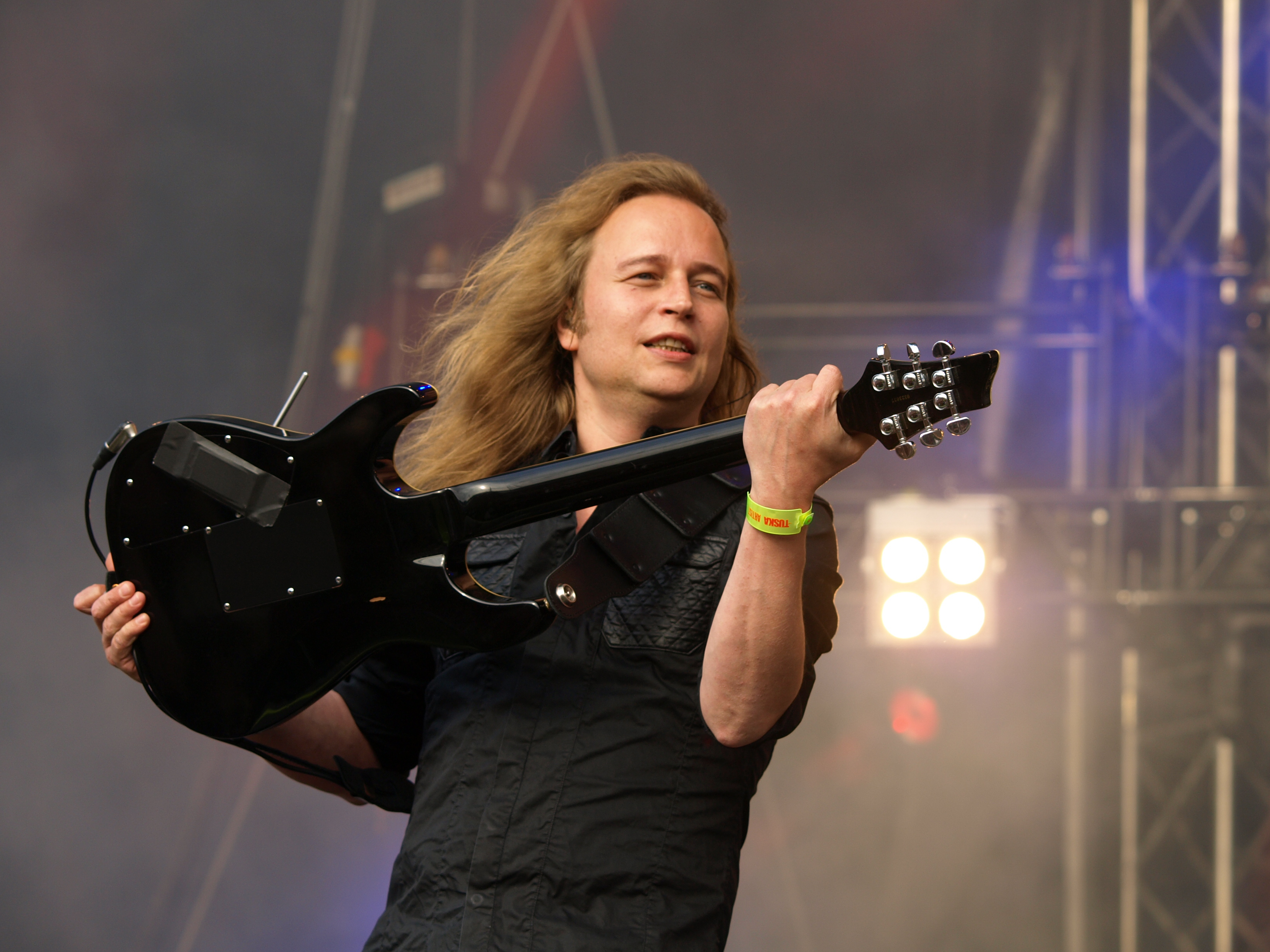 German thrash metal band Kreator live at Tuska Open Air 2013